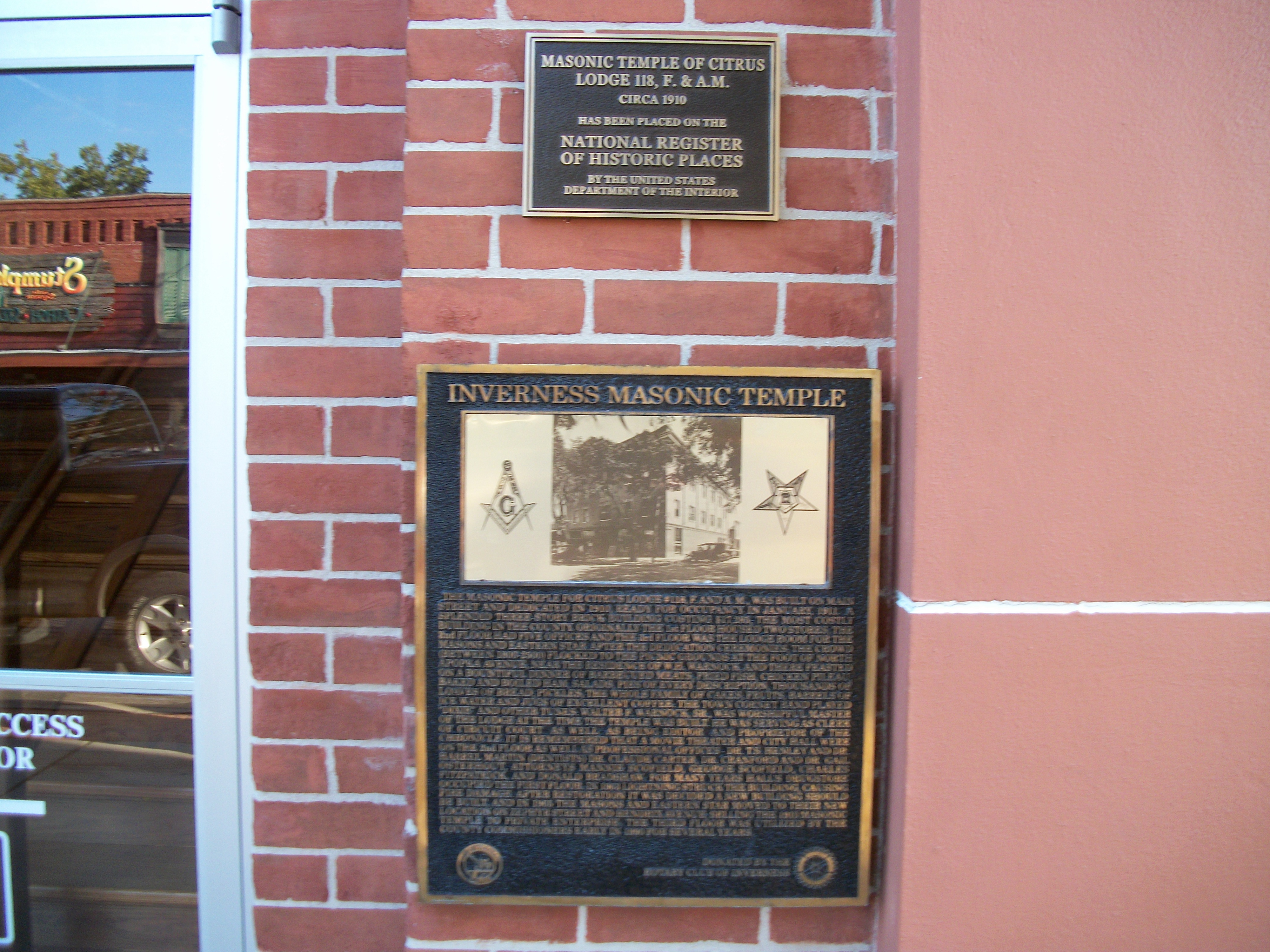 Two plaques to the right of the front door of the Masonic Temple of Citrus Lodge No. 118, F. and A.M. in Inverness, Florida. The one on top is directly from the United States Department of the Interior, which officially makes this a site on the National Register of Historic Places.